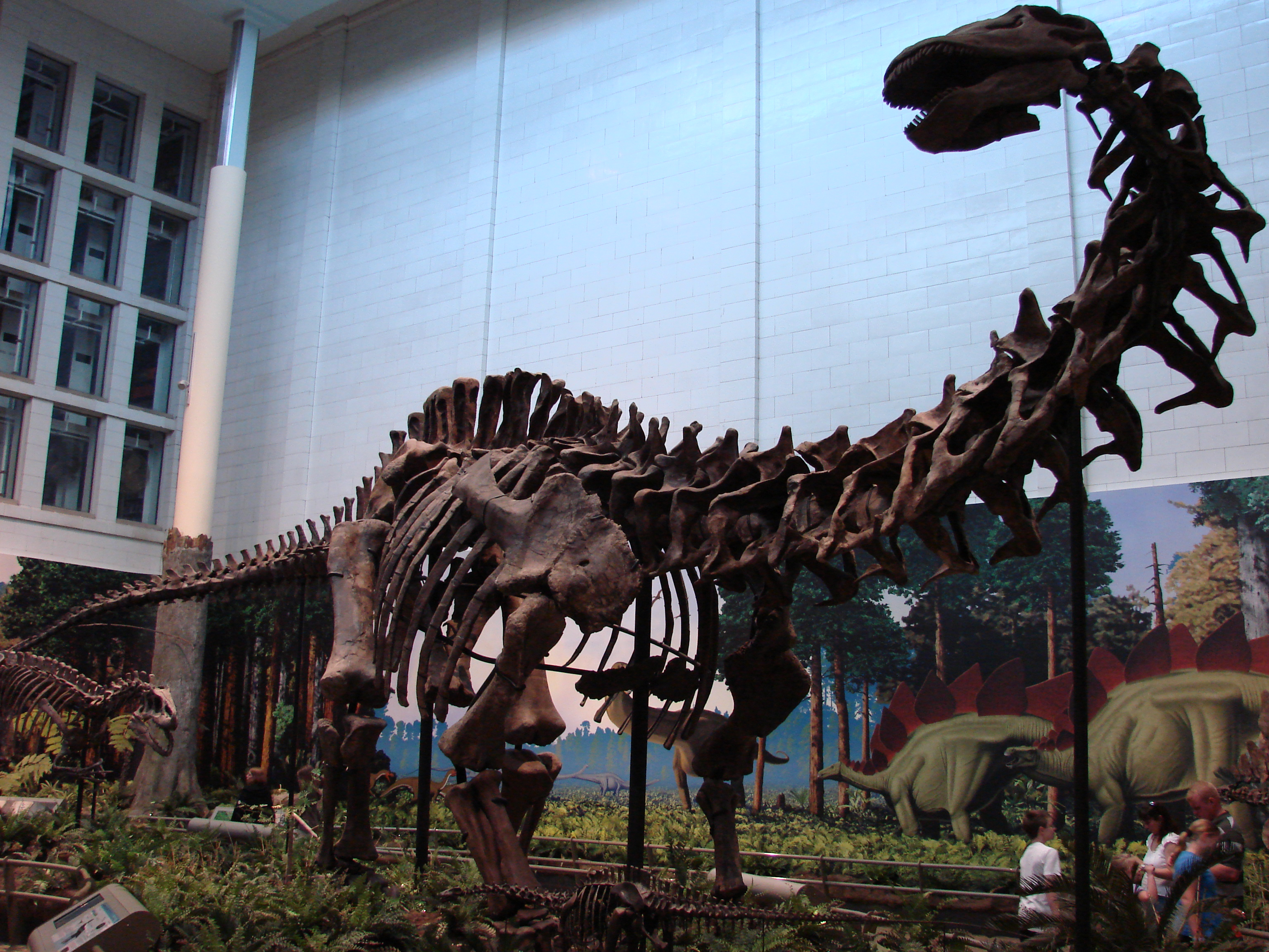 Apatosaurus louisae skeleton, 2008-05-25 Pittsburgh 151 Oakland, Carnegie Museum of Art - Museum of Natural History